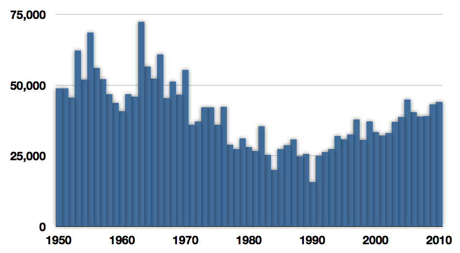 Fisheries recorded capture of wild common shrimp, Crangon crangon, in tonnes from 1950 to 2010. Based on data sourced from the FishStat database, FAO.